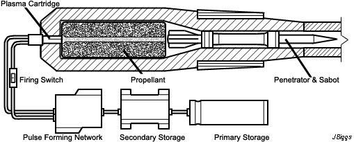 A diagram of an ETC gun. This was done on request from an artist I know. For further information check this link.